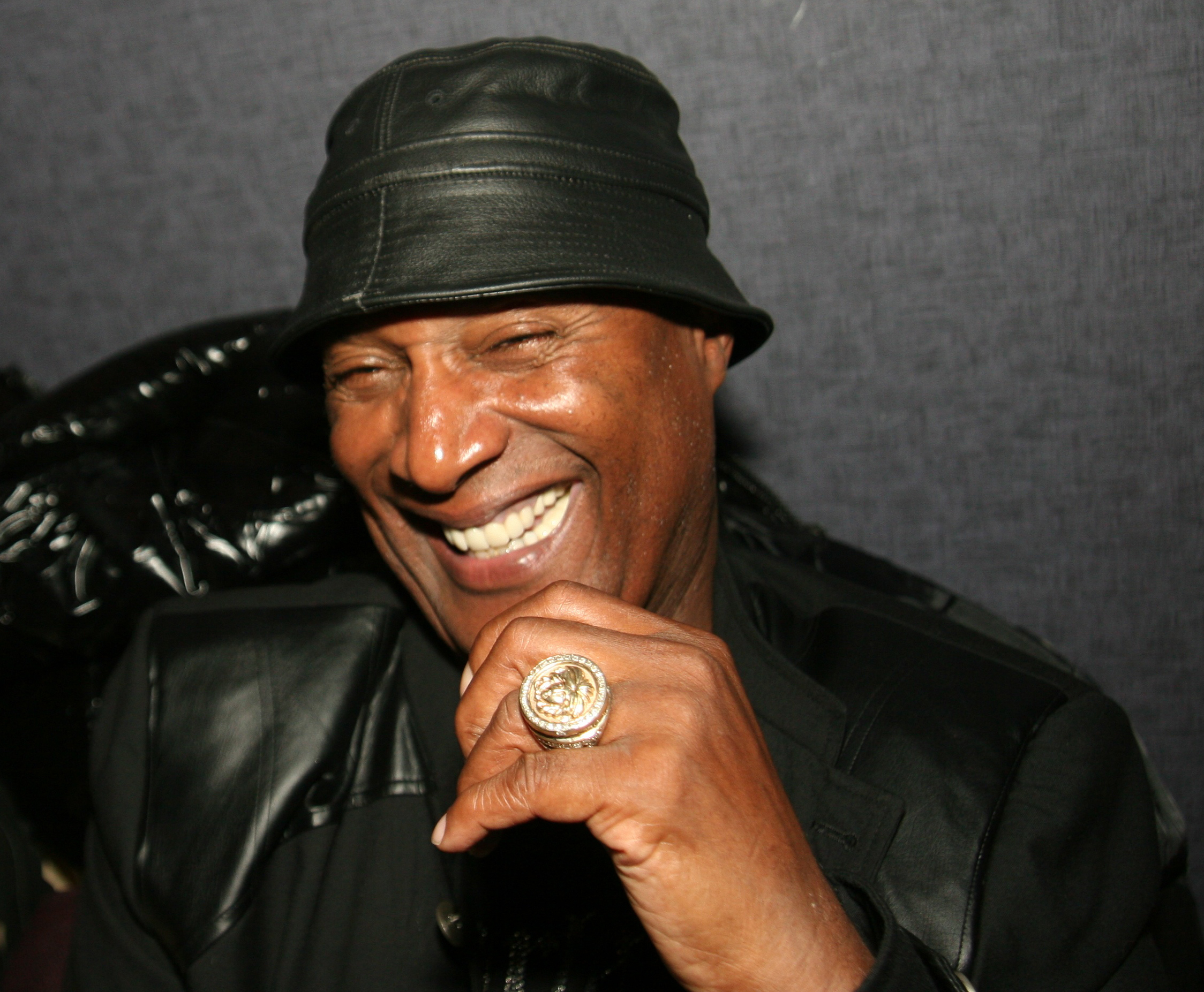 Paul Mooney at a promotional event for Charlie Murphy to promote his book The Making of a Stand Up Guy in December 2009.